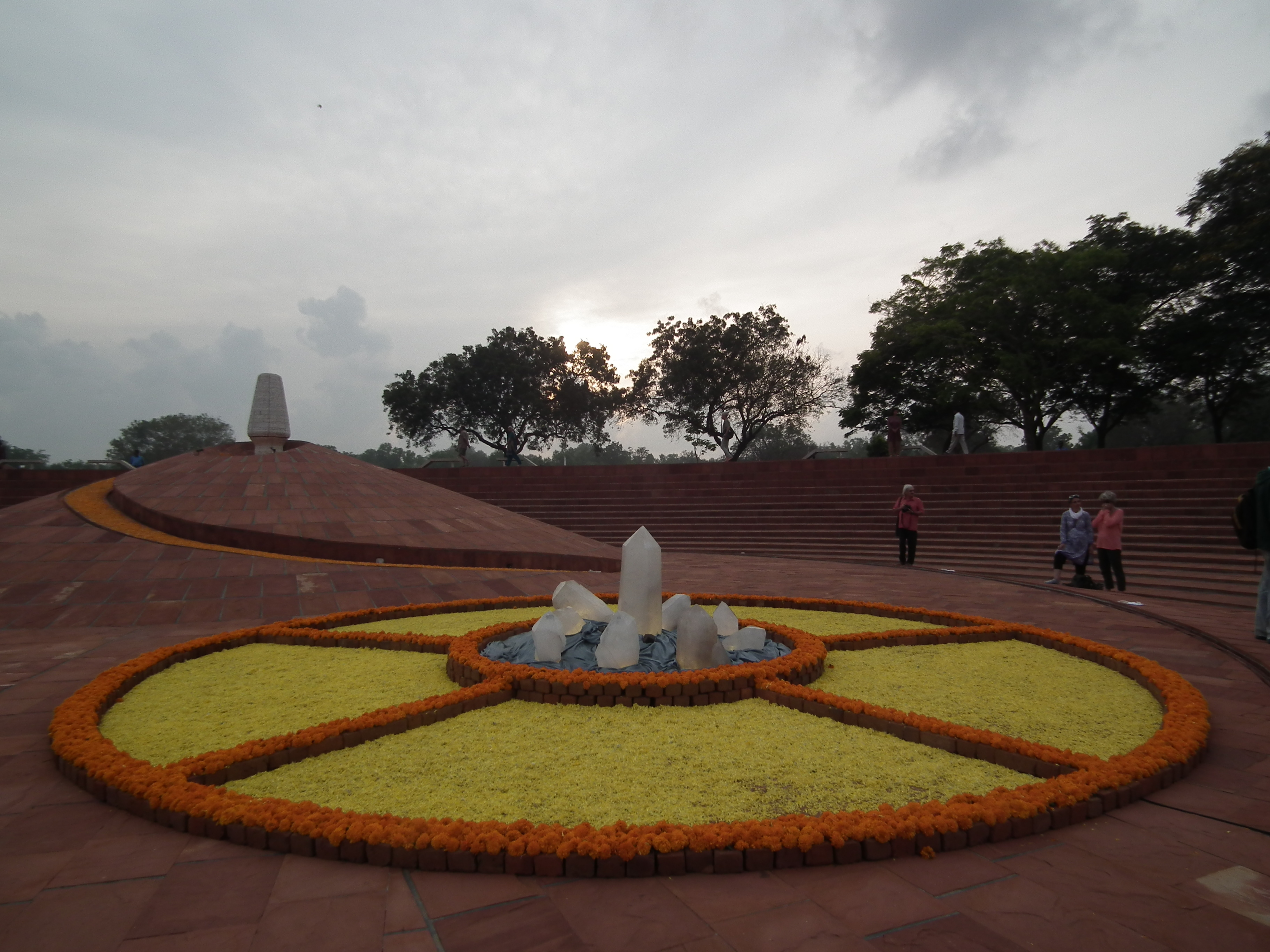 Auroville symbol created from flowers.